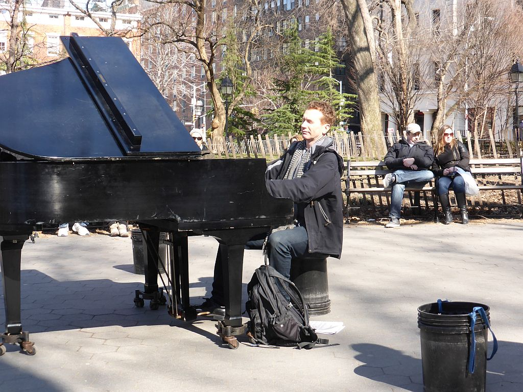 Classical pianist and busker Colin Huggins in Washington Square Park, 2016